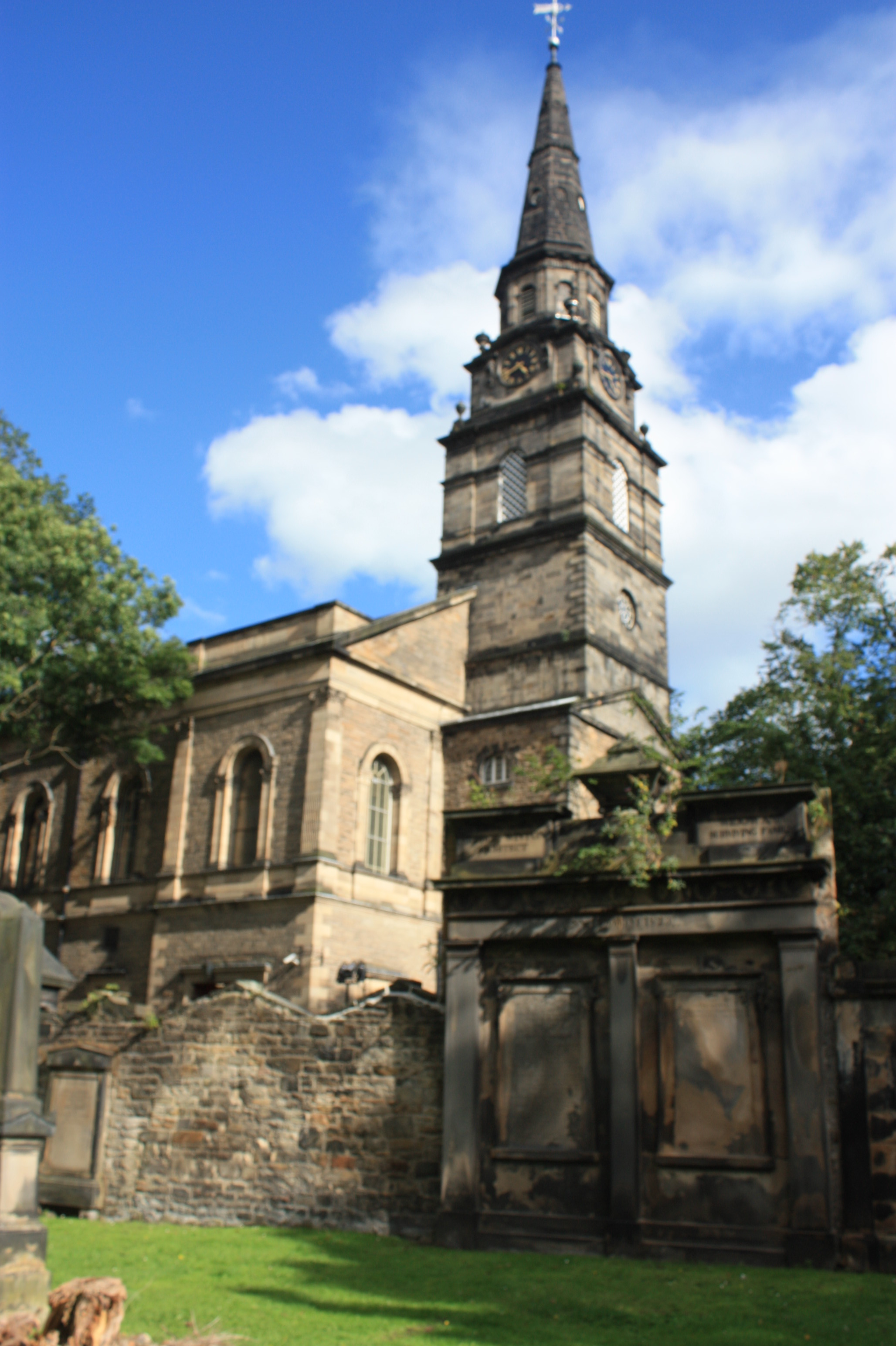 St Cuthberts Church, Edinburgh as seen from north-west